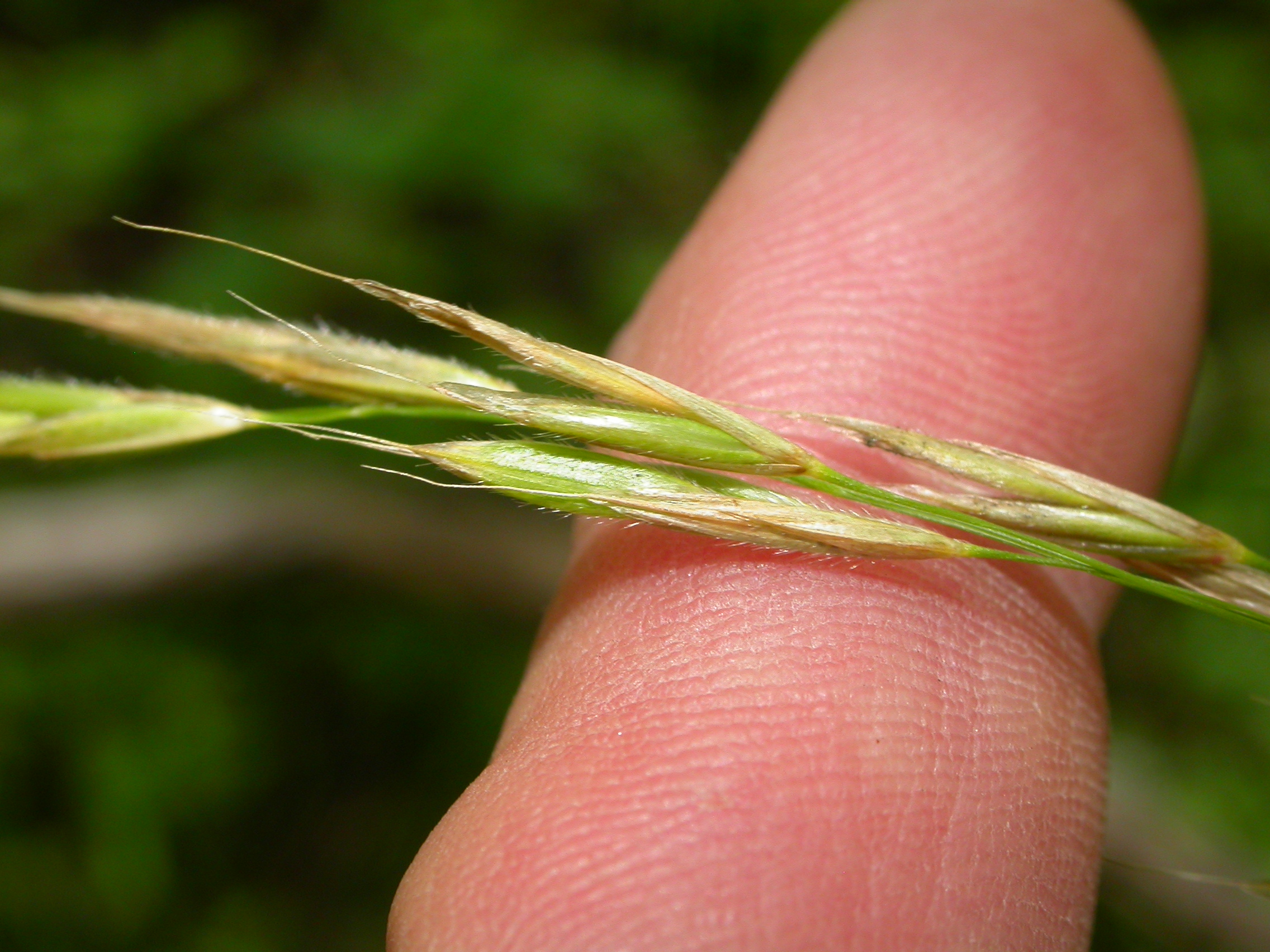 Bromus ciliatus in Gallatin Co., Montana, USA